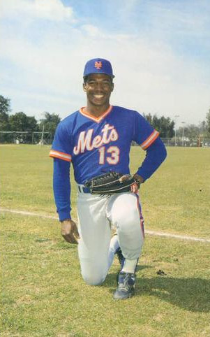 Professional baseball player Stan Jefferson